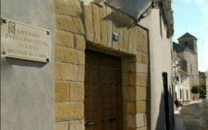 ññsñsñs